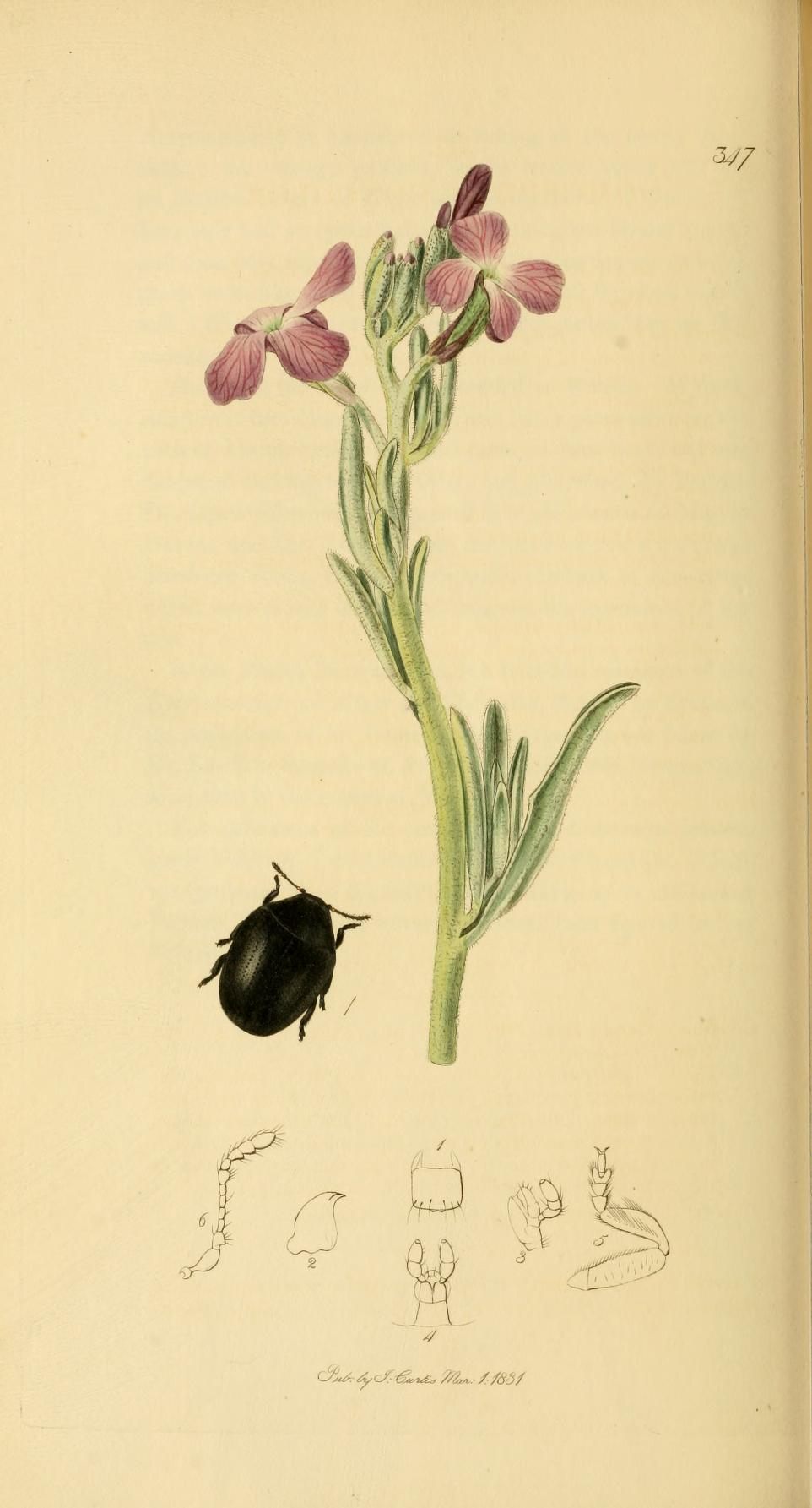 An illustration from British Entomology by John Curtis. Oomorphus concolor or Lamprosoma concolor (Knotted-horned Byrrhus).The plant is Matthiola sinuata (Cheiranthus sunuatus, Sea Stock)